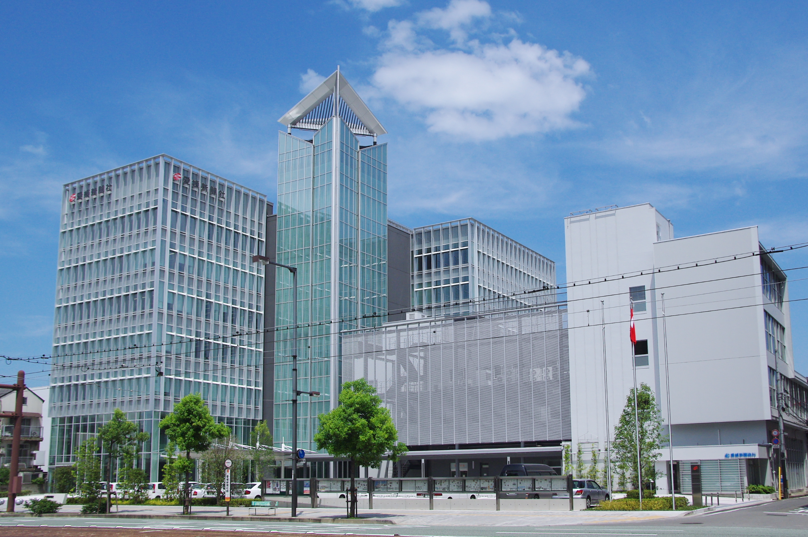 Photograph of the Ehime Shimbun Company Headquarters in Matsuyama, Ehime Prefecture, Japan.